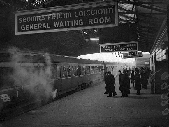 Kind of a sad one for our Pic of the Day from New Year's Eve in 1958. This is the last train ever to run from Harcourt Street Station in Dublin. This photo ran in the Irish Independent on New Year's Day 1959, with an article describing the event. Here's an extract: "An hour after the last train had left Harcourt Station at 4.25 p.m. yesterday the 100-year-old terminus bore a derelict look as a sad-faced staff locked up for the last time. The departure of the last train will be long remembered by hundreds of people for among the 500 passengers, there were young children who were having their first and last train journey on that route. Hundreds of people gathered at the station and outside to watch the end of the service. As the train moved out promptly on schedule fog signals exploded and passengers waved to the crowds on the platform. With tears in her eyes, Mrs Maggie McLoughlin, of York St., who had been selling newspapers at the station for 39 years, said good-bye alone and unnoticed in a corner of the station. At Bray hundreds of people were waiting on the station to greet the train as it arrived. Some young men attempted to remove fittings as souvenirs but were prevented by the Gardaí on duty." Date: Wednesday, 31 December 1958 NLI Ref.: INDR2238